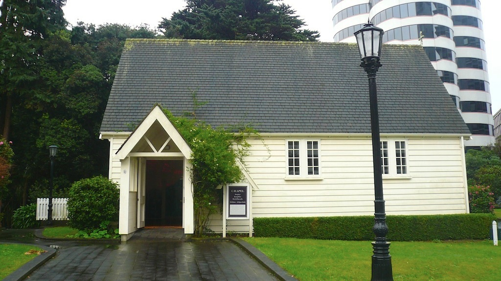 Bolton Street Memorial Park Chapel